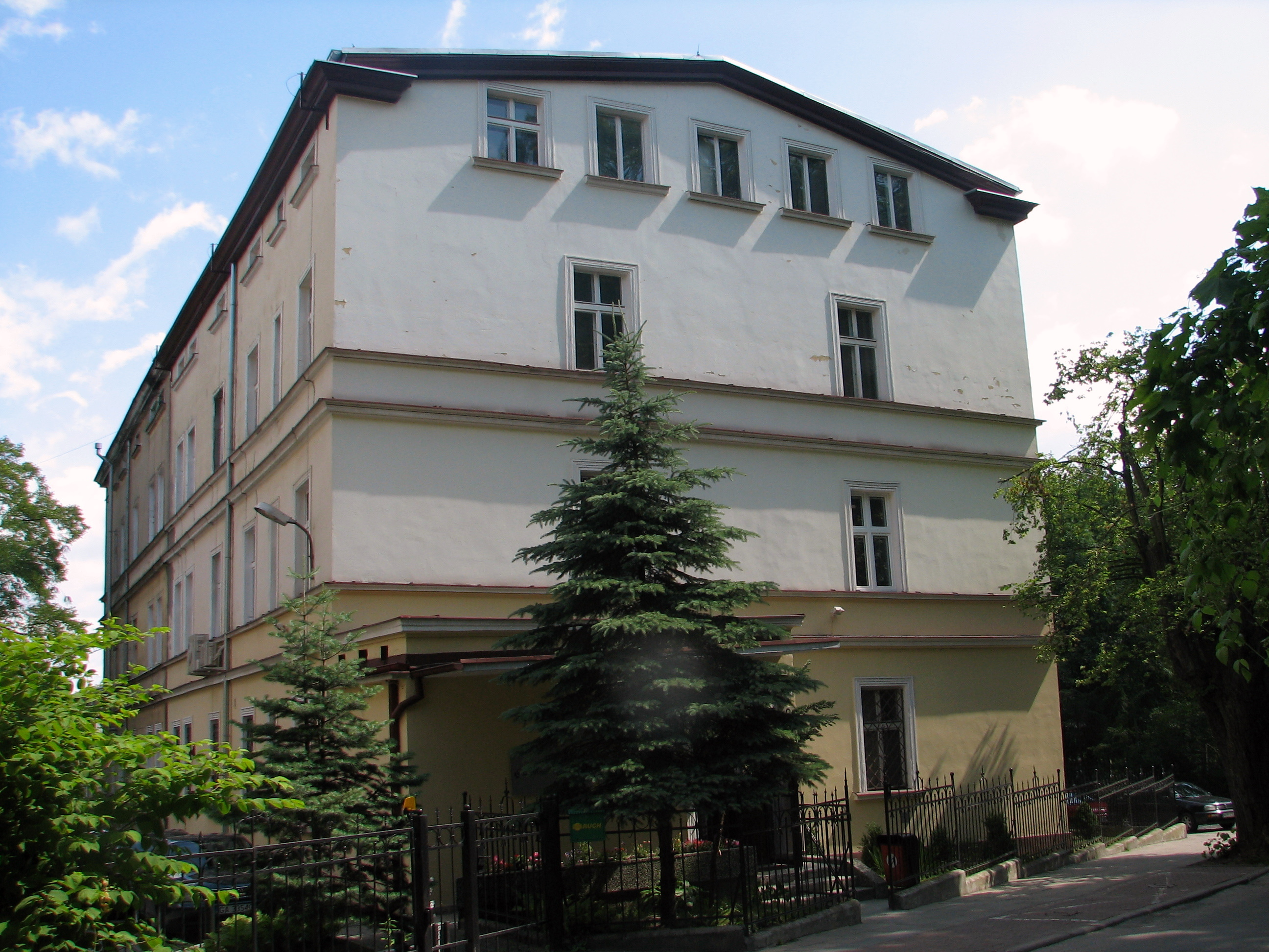 Office building at Sobótki 9 Street in Gdańsk. Rented by the Metropolitan Communication Association of the Gdańsk Bay.